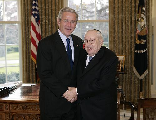 Rabbi Dr. Bernard Lander with President George W. Bush in the Oval Office Official White House Photo